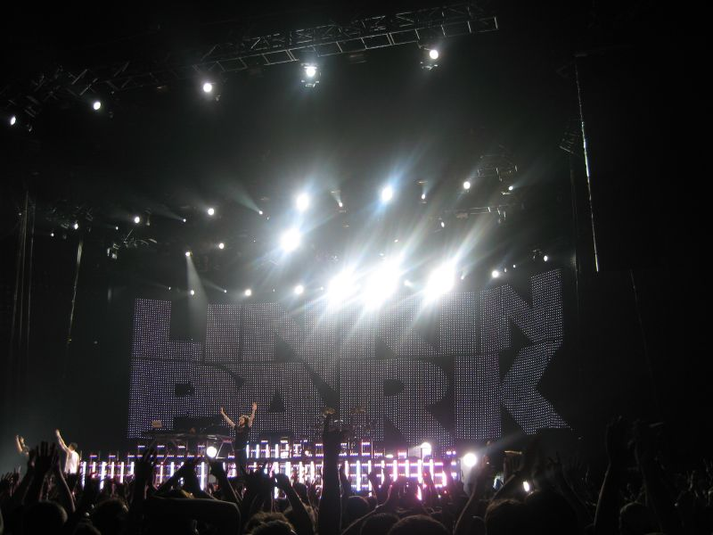 Linkin Park live in Paris-Bercy.